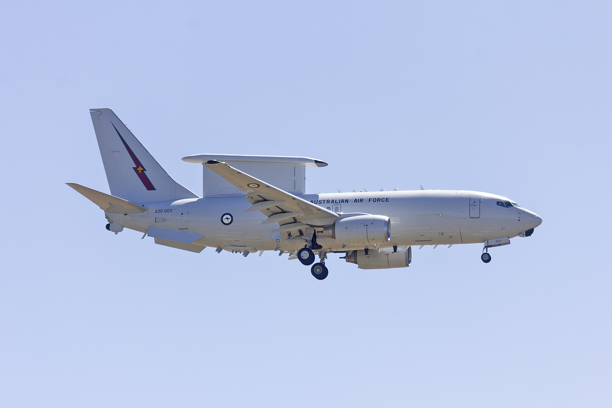 Royal Australian Air Force (A30-003) Boeing E-7A Wedgetail aerial display at the 2015 Warbirds Downunder Airshow at Temora Aviation Museum.